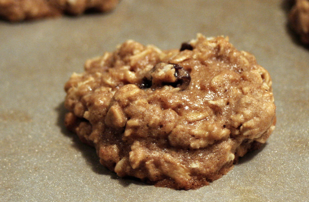 Oatmeal cookies with a touch of unsweetened cocoa Recipe and more on Pithy and Cleaver here.